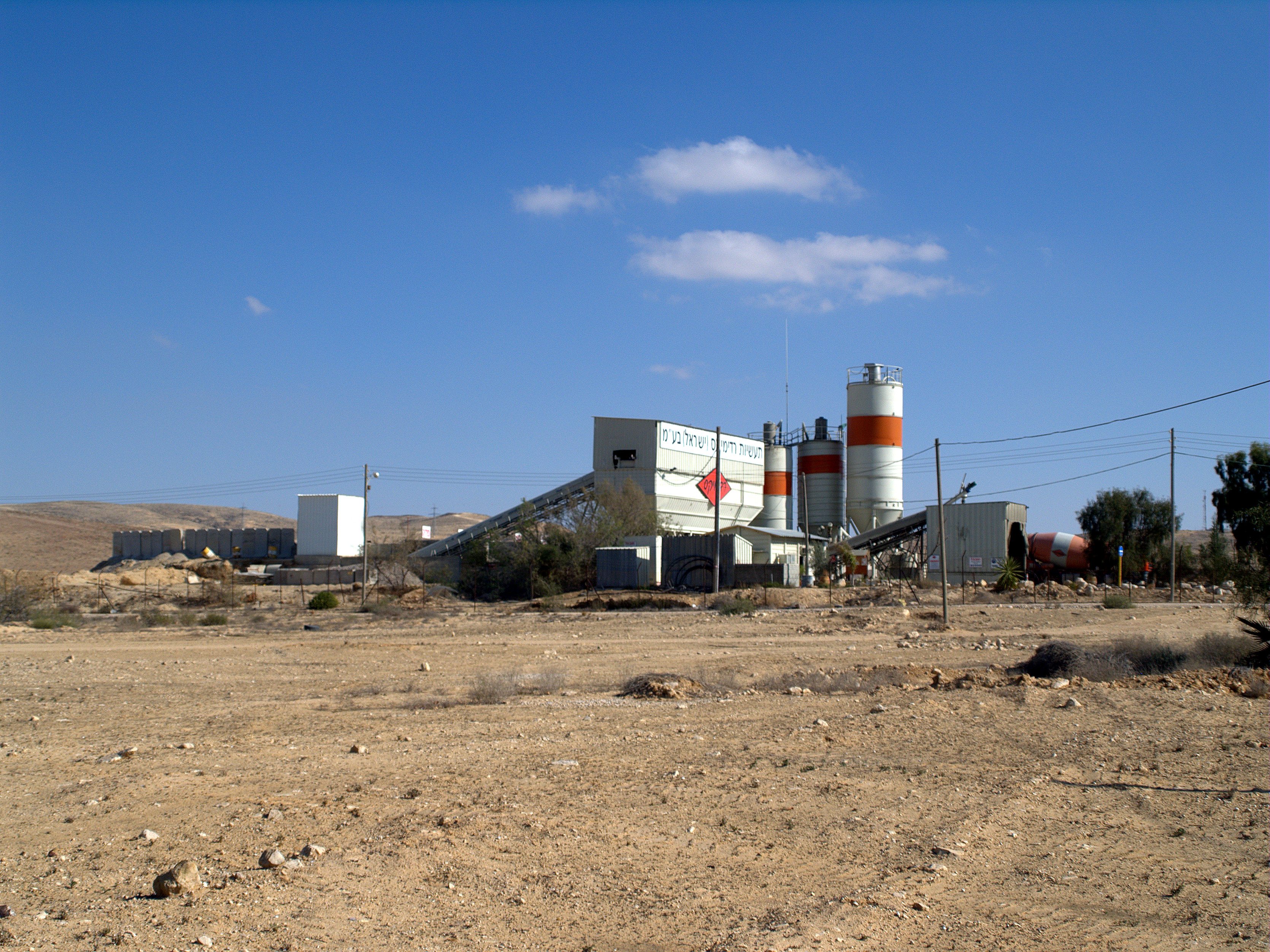 A concrete factory in the Negev desert. The three round silos shown in the photo are used to store cement transported from the cement factor.